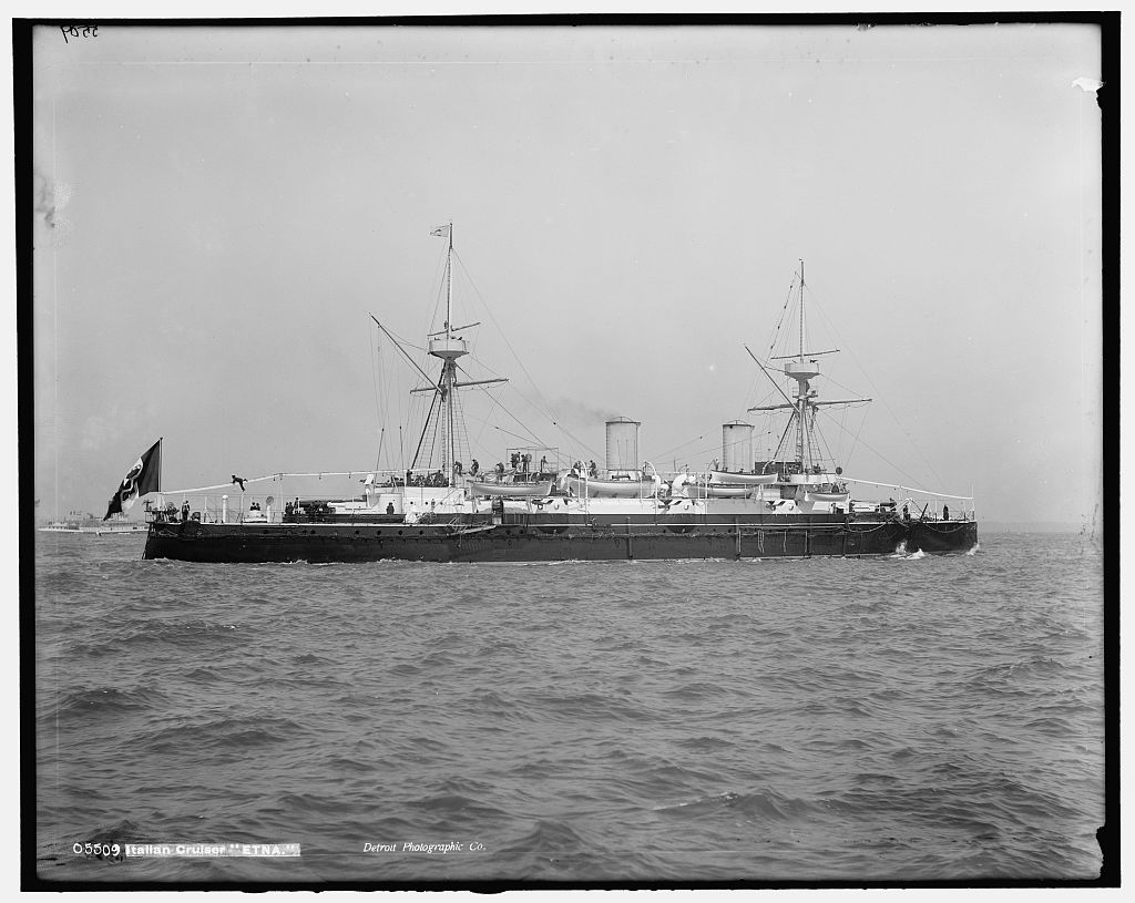 The Italian cruiser Etna in the 1890s. She was launched in 1885 and decommissioned in 1921.